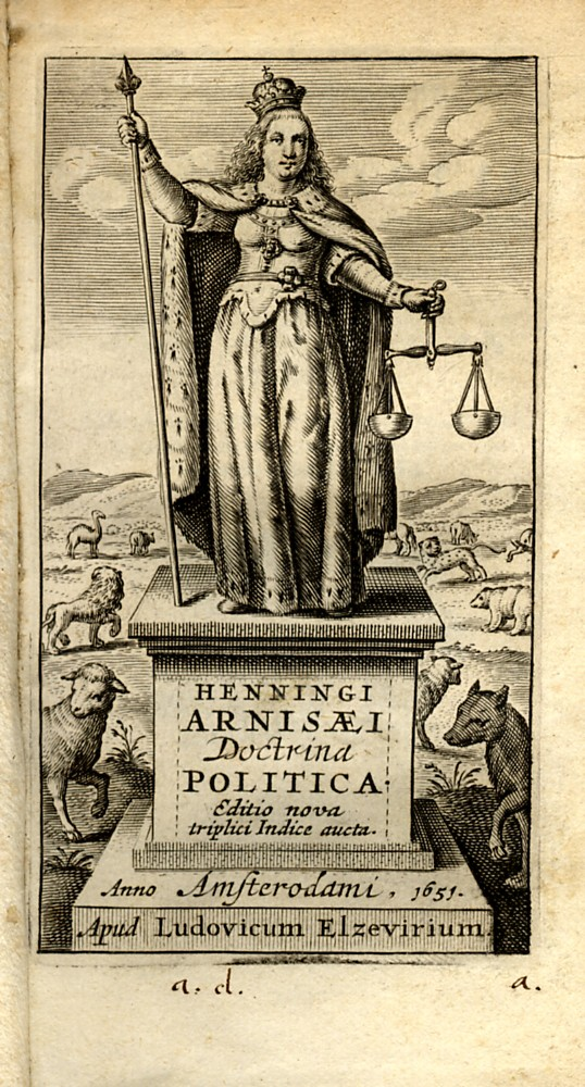 Title page of the 1651 edition of the Doctrina Politica of Henning Arnisaeus